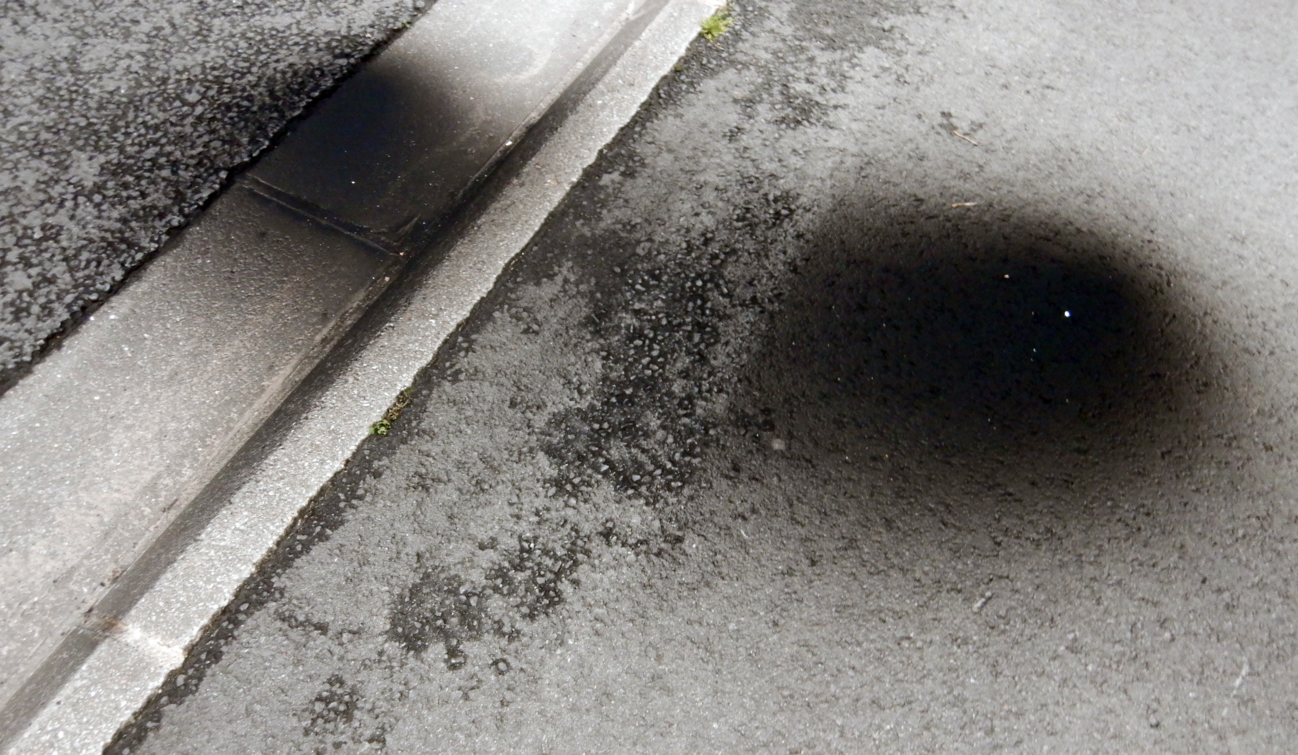 Deposition of carbon particles (soot), from a muffler, at cold start.